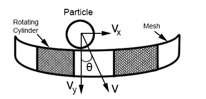 Relationship between the velocities and the sieve behavior of particles